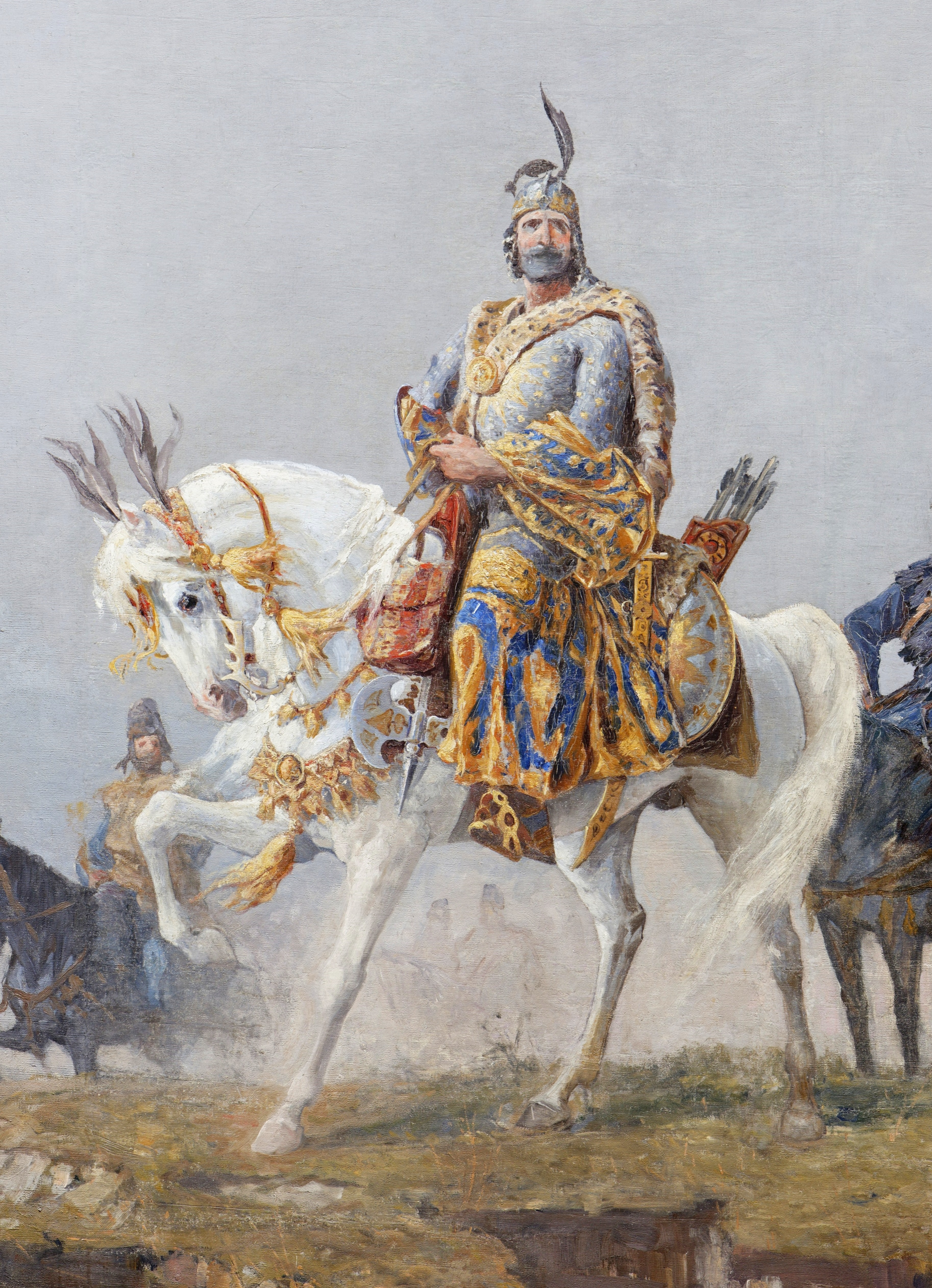 Árpád on a white horse